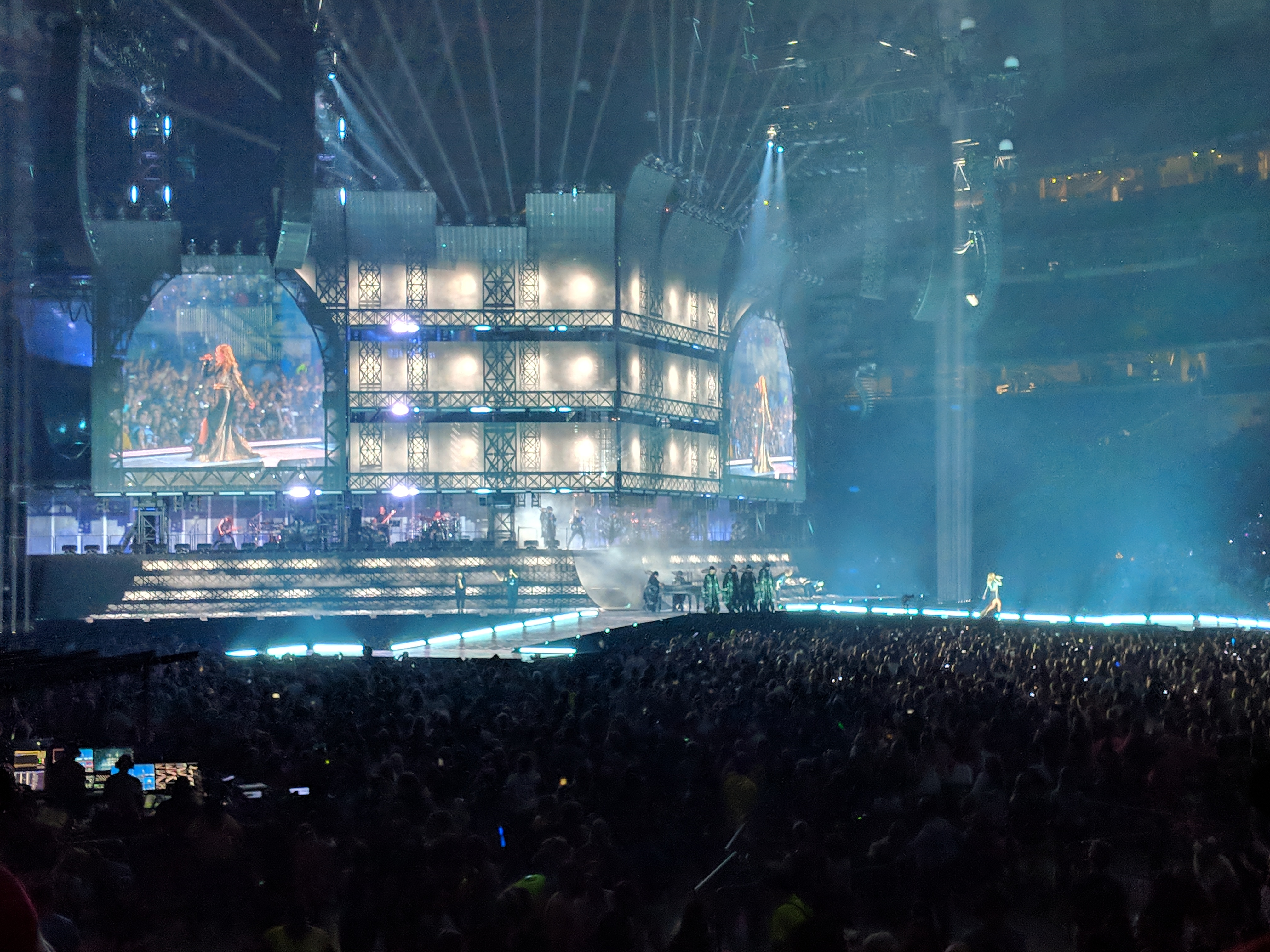 Taylor Swift Reputation Tour main stage